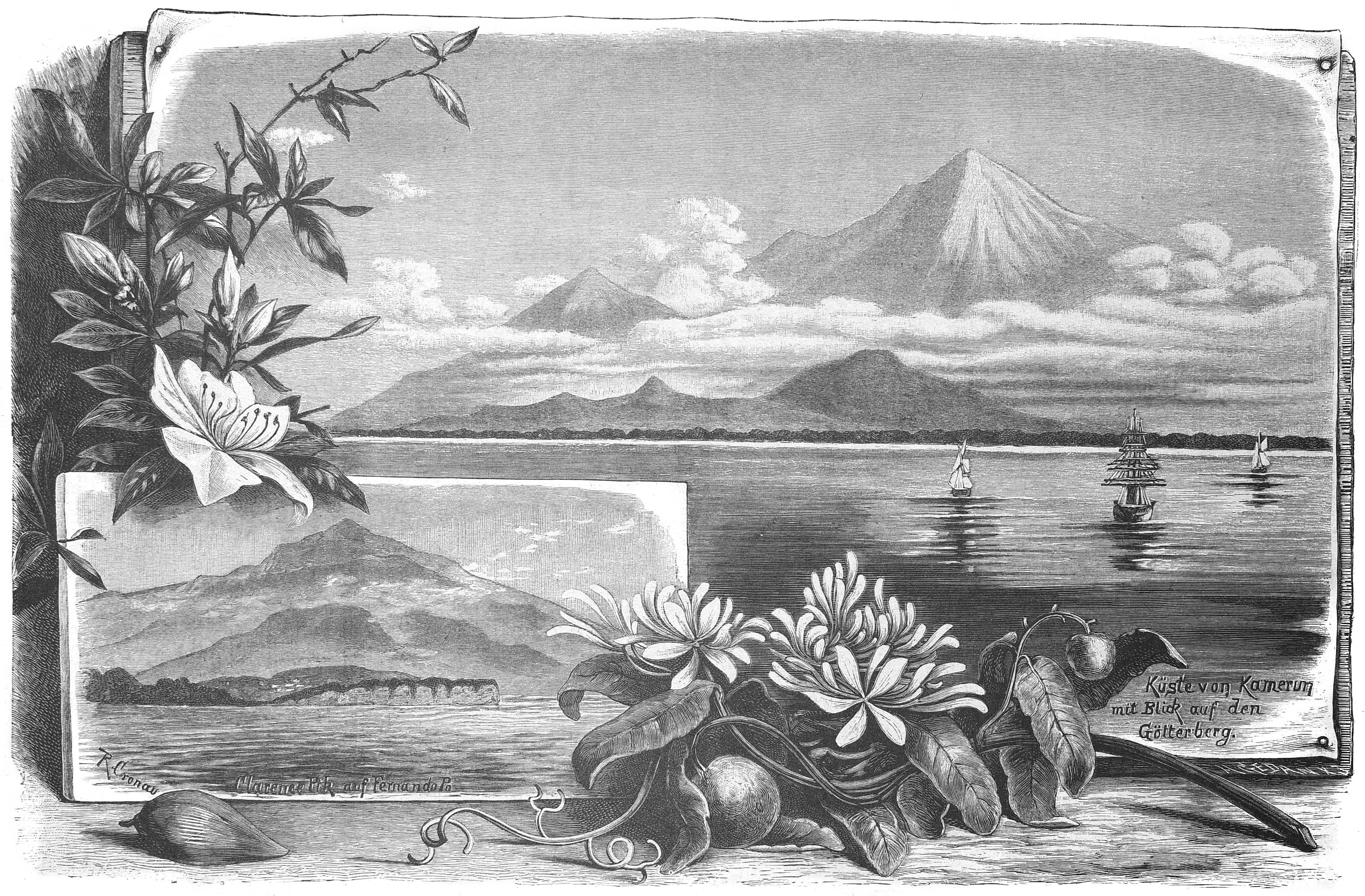 caption: "Kamerun und Fernando Po. Nach Original-Aufnahmen von Dr. Pechuel-Loesche für die „Gartenlaube“ auf Holz gezeichnet von R. Cronau."